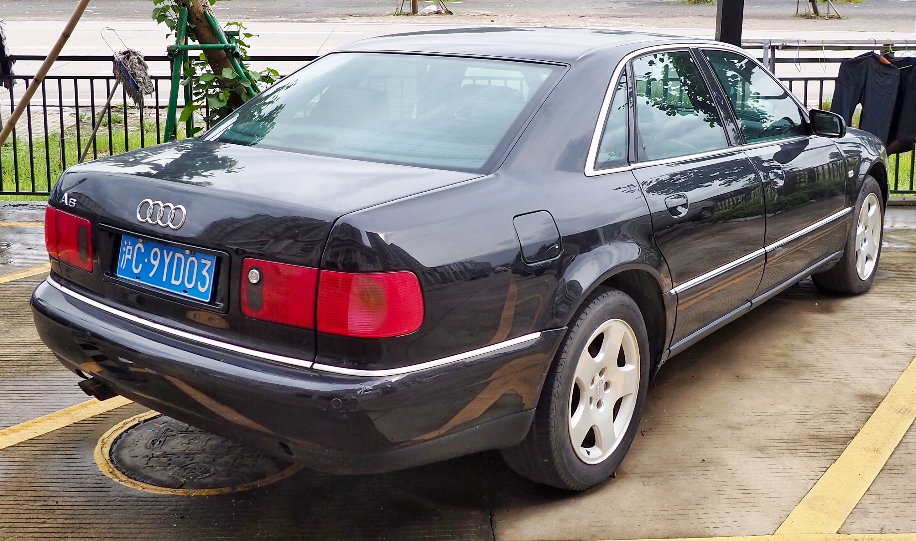 A 1995 Audi A8 photographed in Zhongshan, Guangdong province, China. 中文（中国大陆）: 一辆1995年的奥迪A8，拍摄于中国广东省中山市。